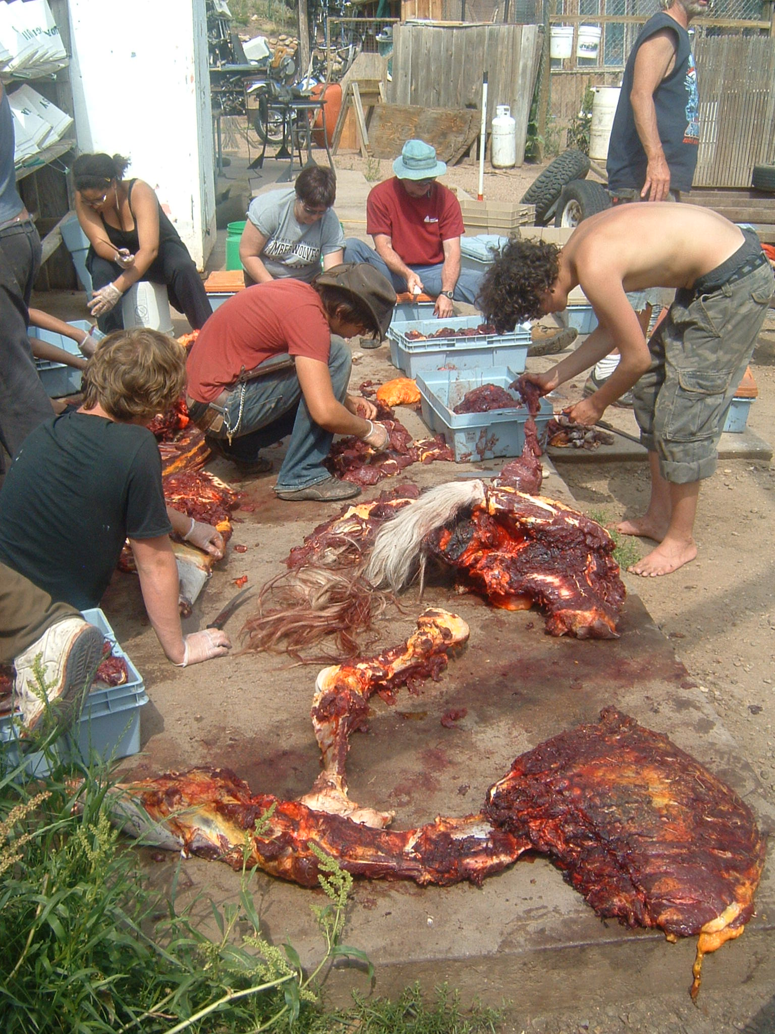 Mission: Wolf: Cutting horse meat for the wolves before big feed.